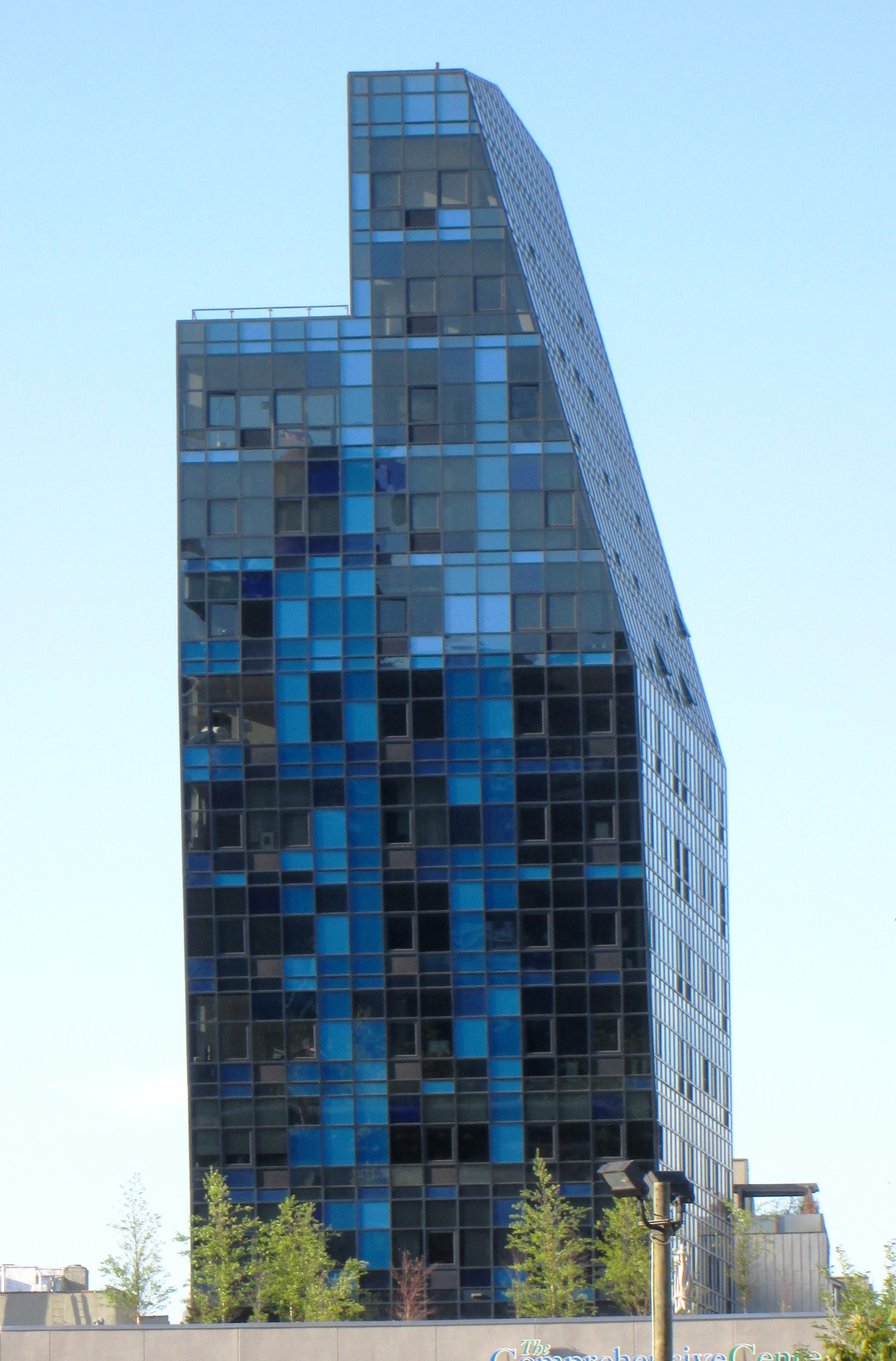 105 Norfolk Street between Delancey and Rivington Streets in the Lower East Side neighborhood of Manhattan, New York was built in 2005-07 and was designed by Bernard Tschumi. (Source: StreetEasy)